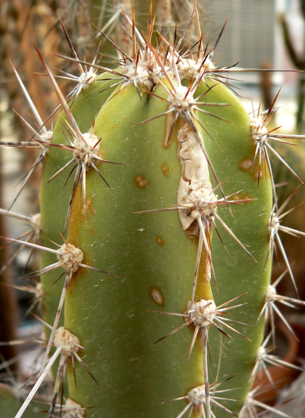 Photo of Armatocereus riomajensis at the University of California Botanical Garden